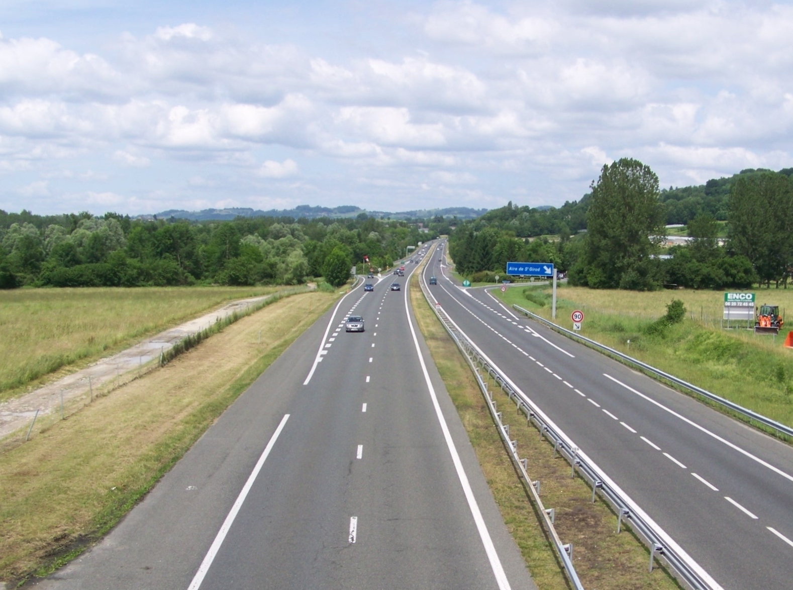 French motorway A41 from Grenoble to Annecy seen near St-Girod and Albens in Savoie, 2 kilometers away from Haute-Savoie.